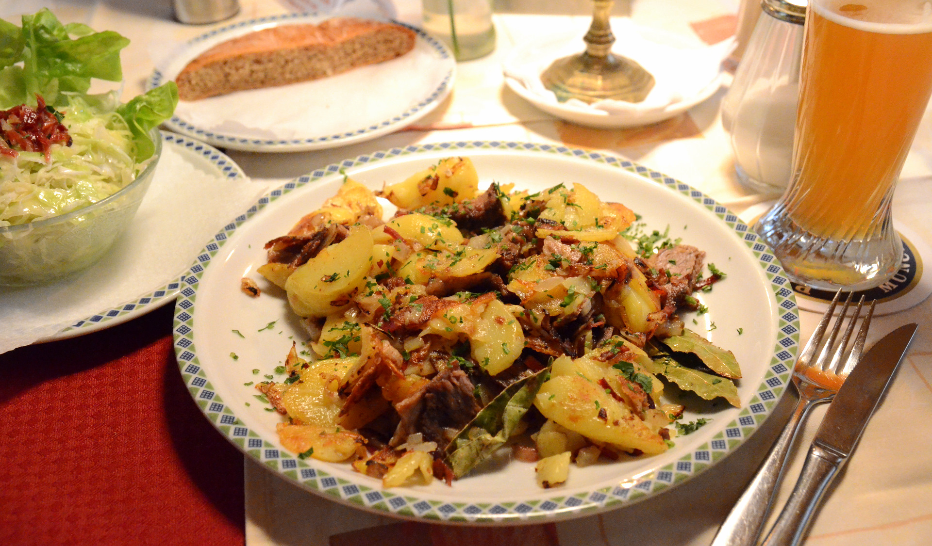 Tiroler Gröstl are Tirolean fried potatoes, here with bacon, onion, roast beef and lots of bay leaves. Here at a Tirolean restaurant in Herrsching, Bavaria.